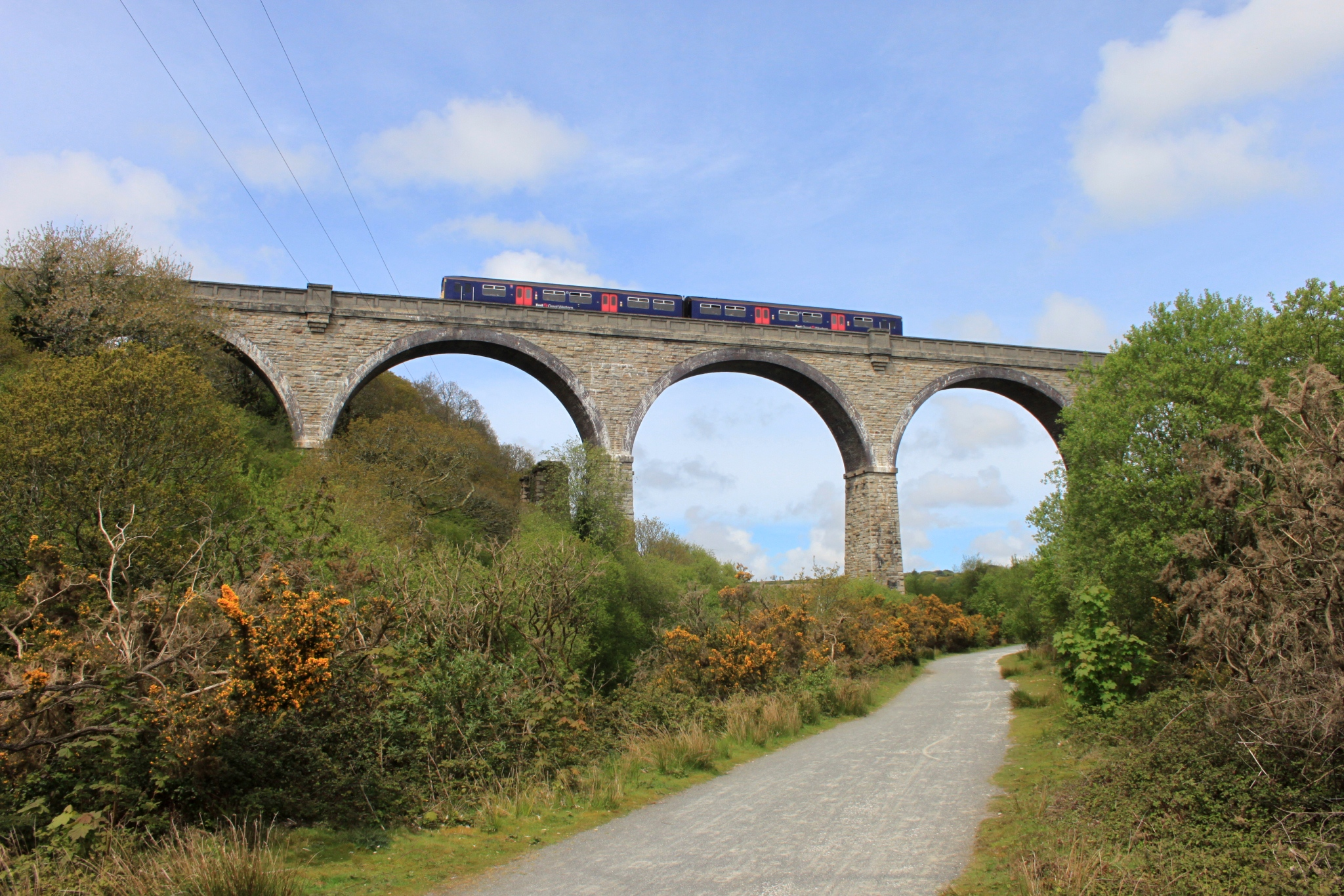 First Great Western's 150126 crosses the Carnon Viaduct on the Maritime Line in Cornwall. The cycle path below is the coast-to-coast Mineral Tramways Trail.